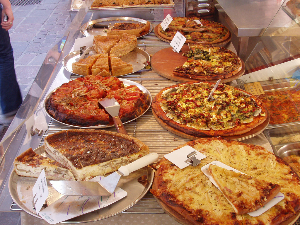 Different kinds of quiches.